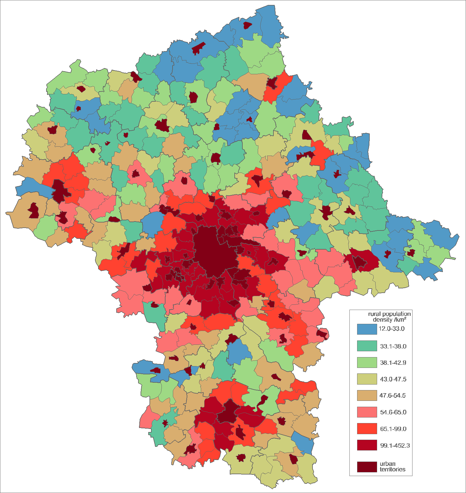 rural population density of Masovian Voivodship Poland